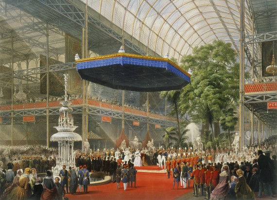 The State Opening of The Great Exhibition, England. Queen Victoria opens the Great Exhibition in the Crystal Palace in Hyde Park, London.